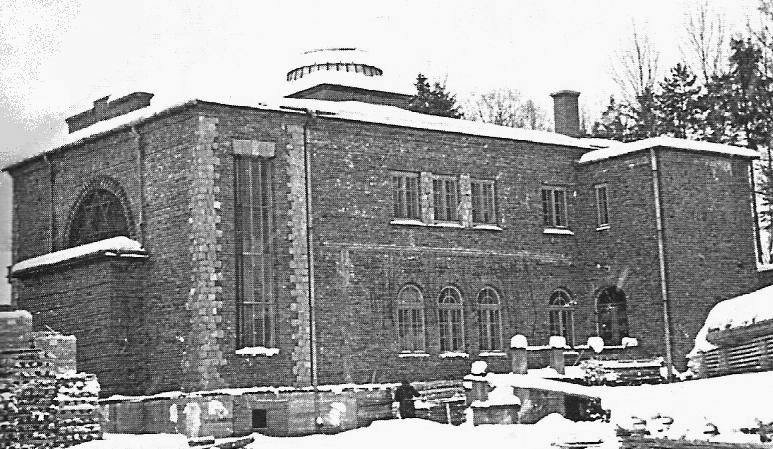 Synagogue in Zakopane, בית כנסת בזאקופנה